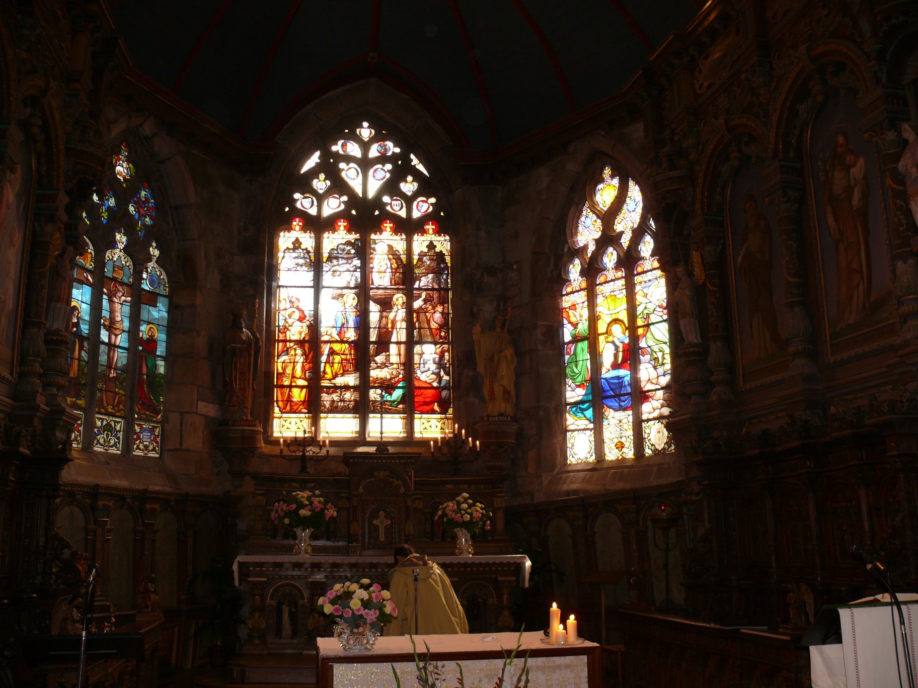 Our-Lady-of-Rumengol's church of Le Faou (Finistère, Bretagne, France).